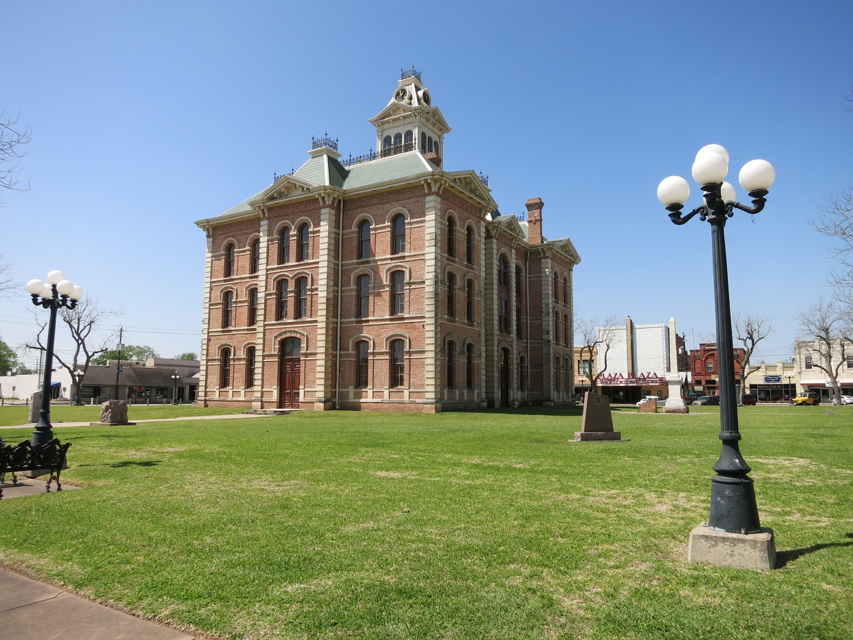 Photo shows the historic Wharton County Court House at 103 S. Fulton Street in Wharton, Texas. View is west.